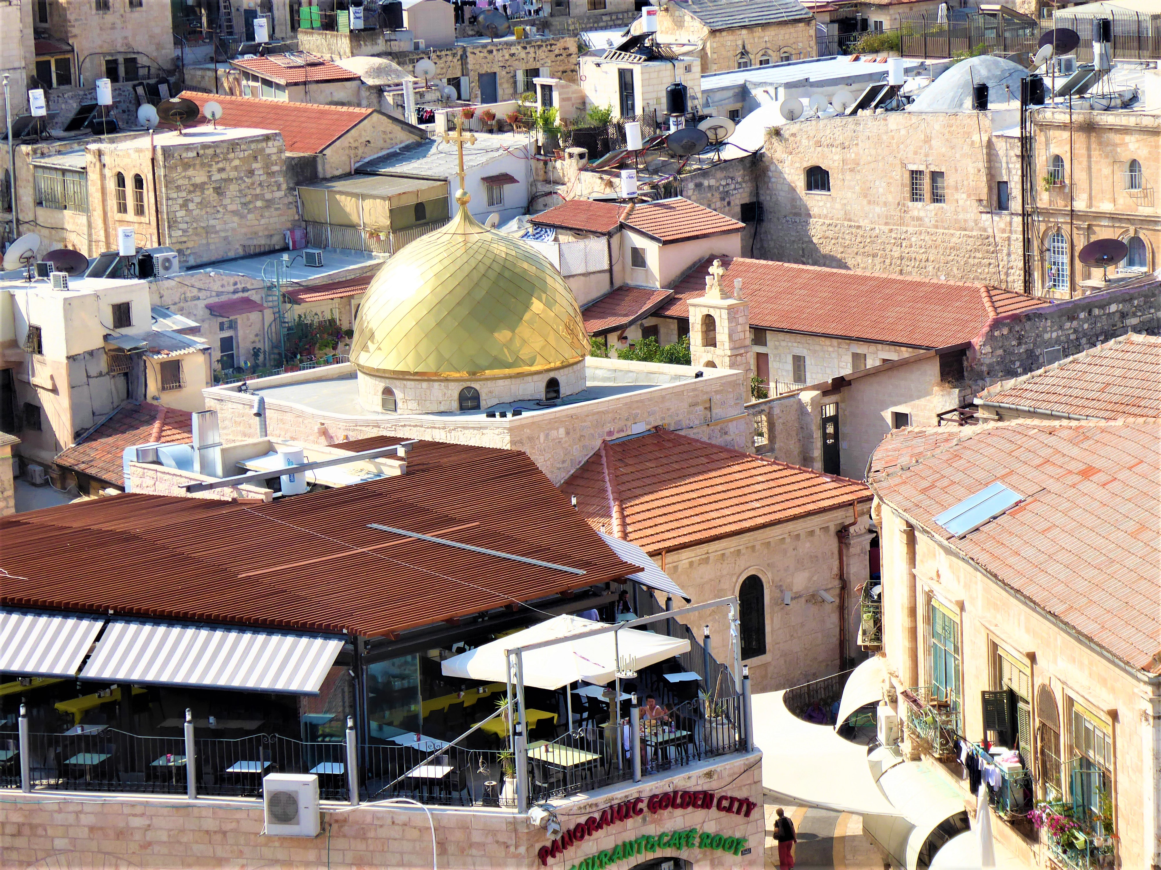 Church of John the Baptist, Old City of Jerusalem